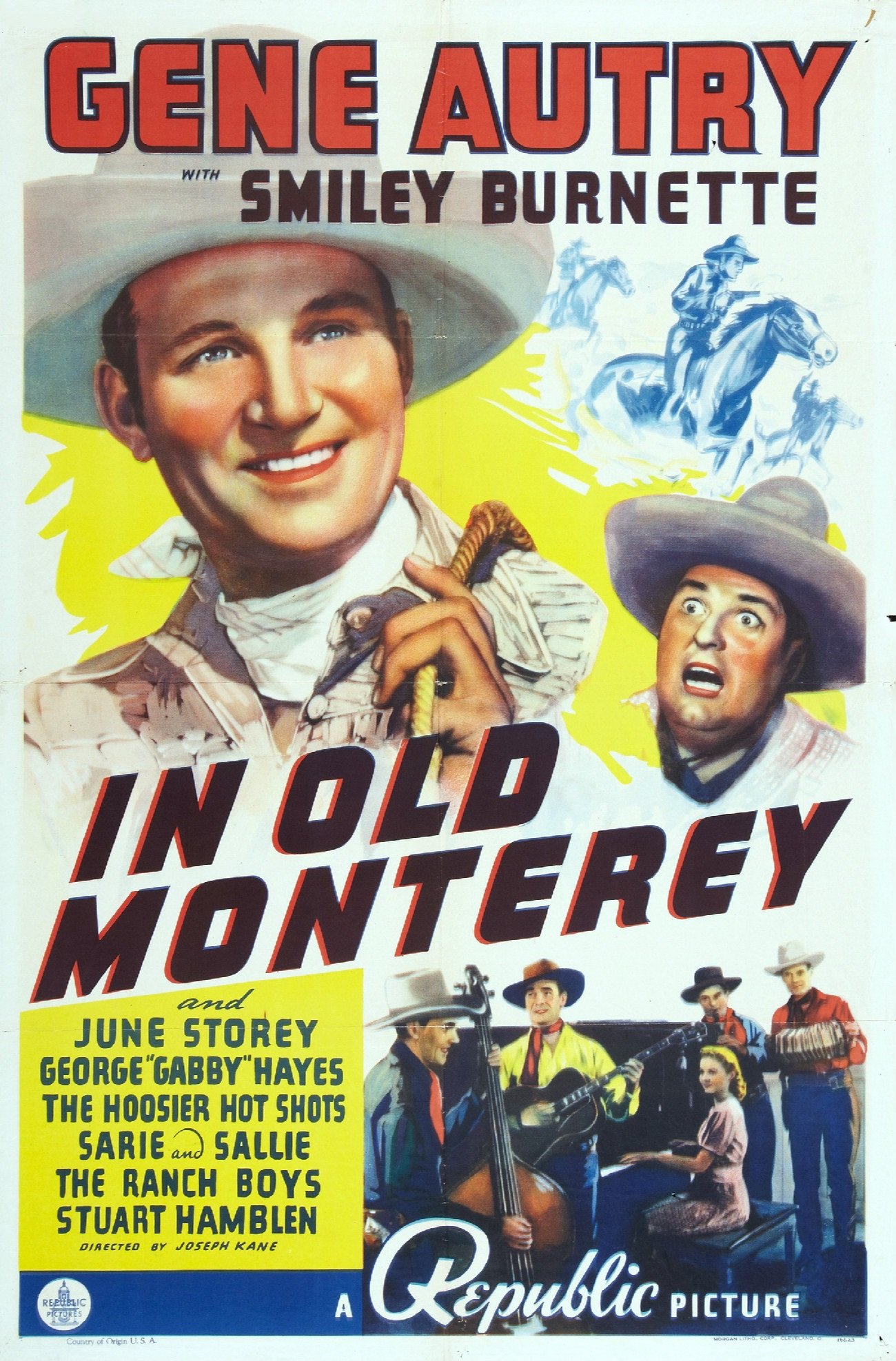 Poster for the 1939 film In Old Monterey. There are no copyright marks. At bottom left is Country of origin USA. At bottom right is The Morgan Litho. Corp., Cleveland, O. 16623.